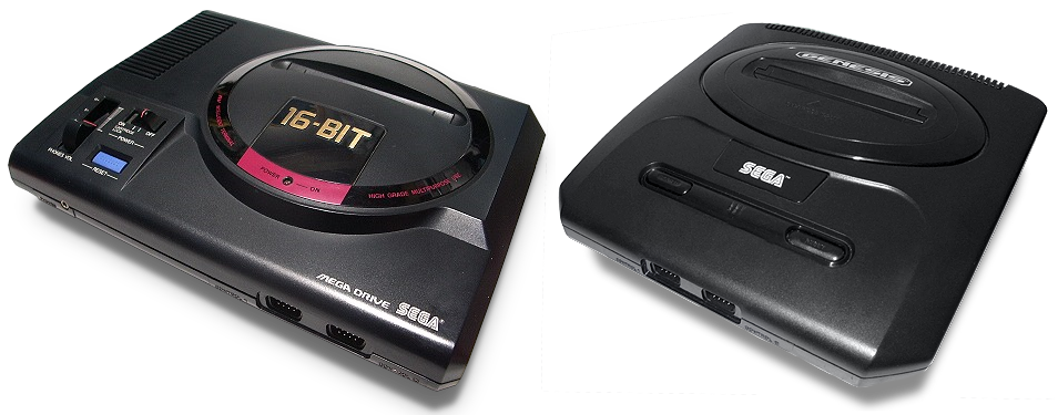 Sega Mega Drive (Japanese model 1) & Sega Genesis (model 2)